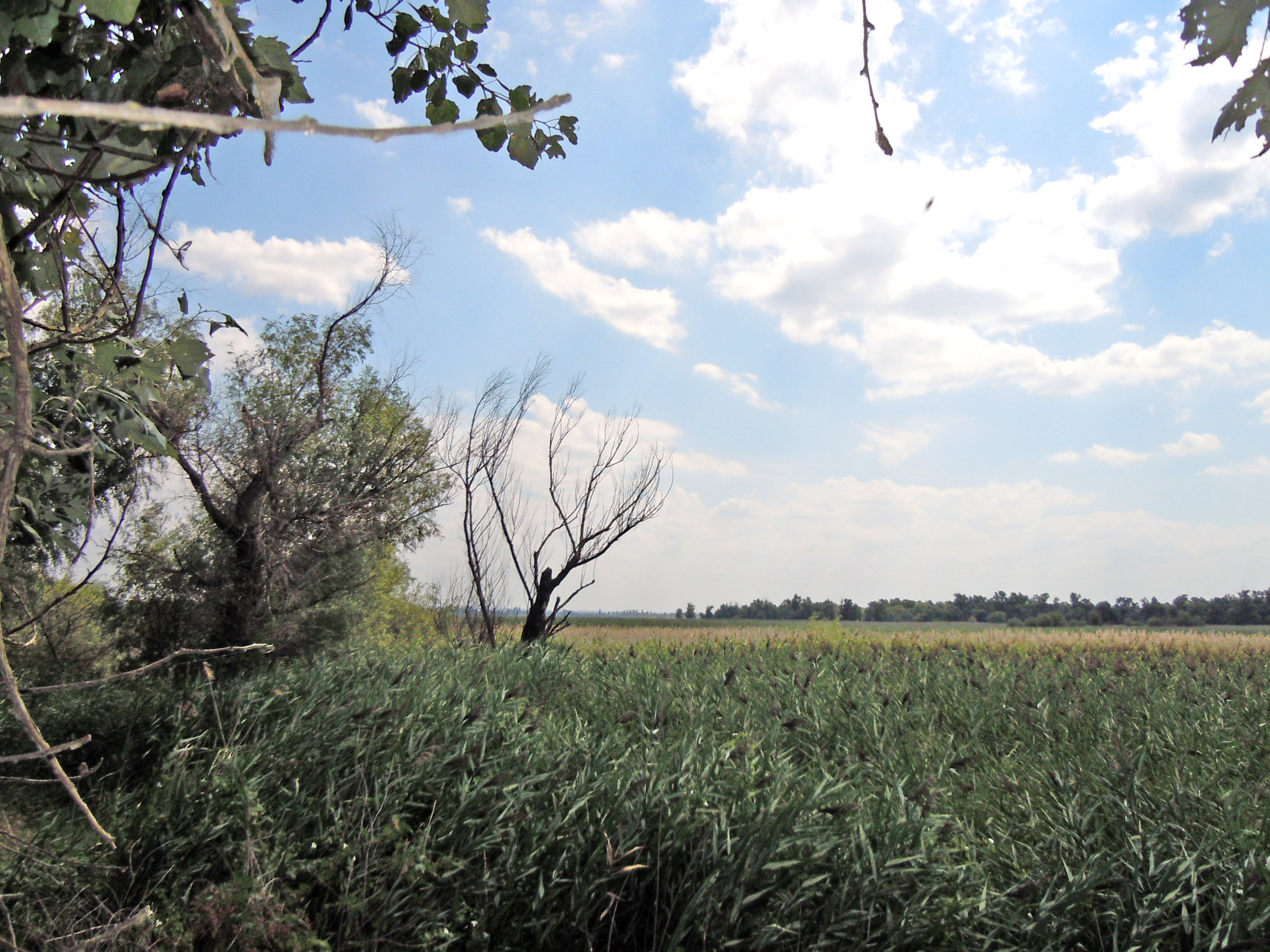 Lake Pohorile near the City of Bilyayivka, Odessa Oblast, Ukraine